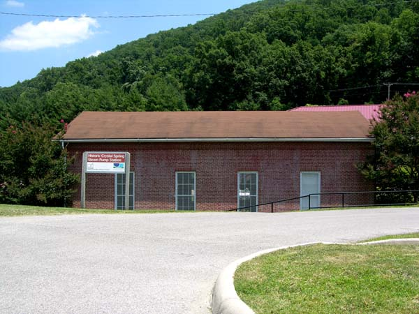 Crystal Spring Steam Pumping Station listed on the National Register of Historic Places in South Roanoke, Roanoke, Virginia, USA